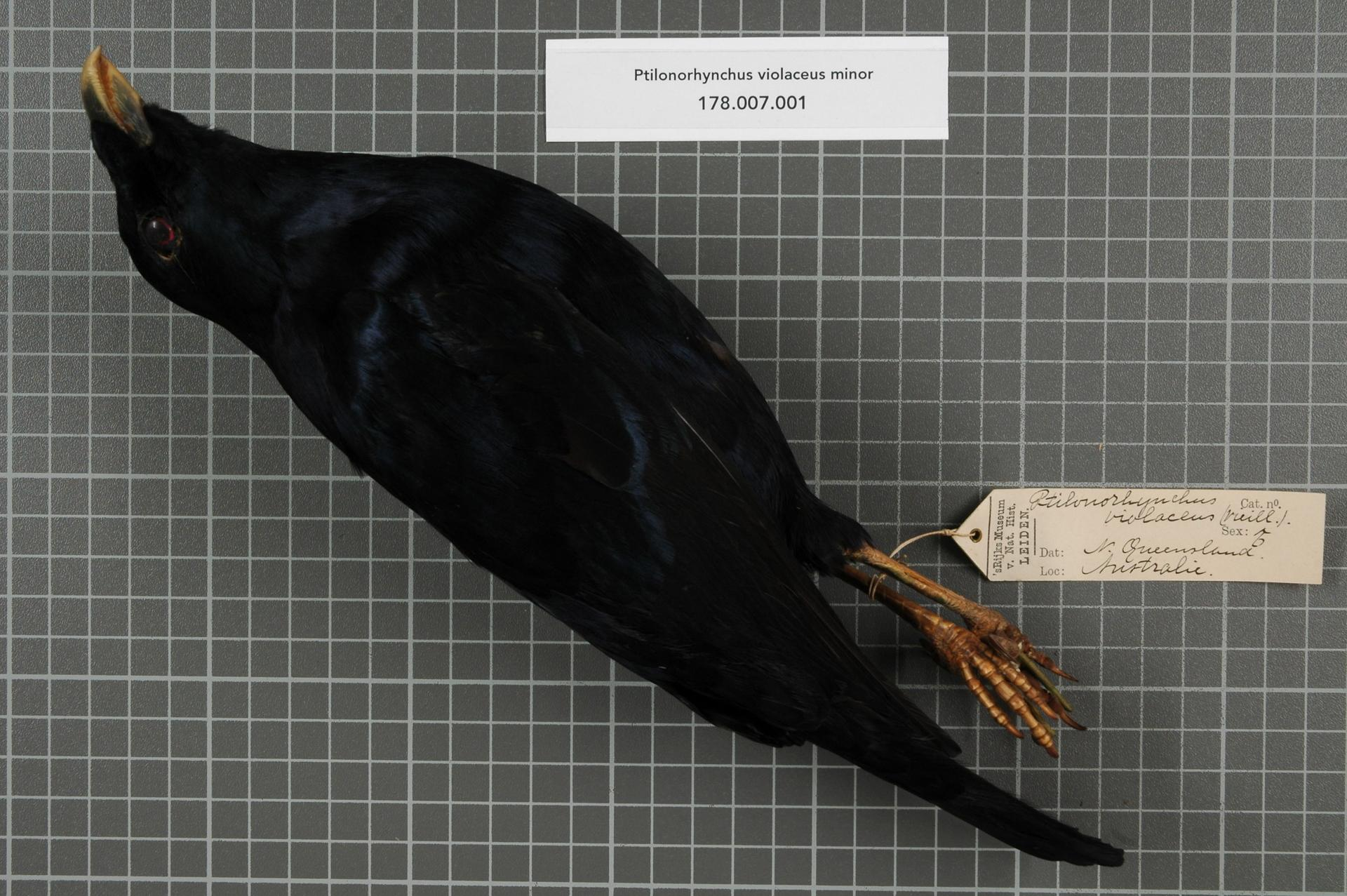 Ptilonorhynchus violaceus minor Campbell, 1912